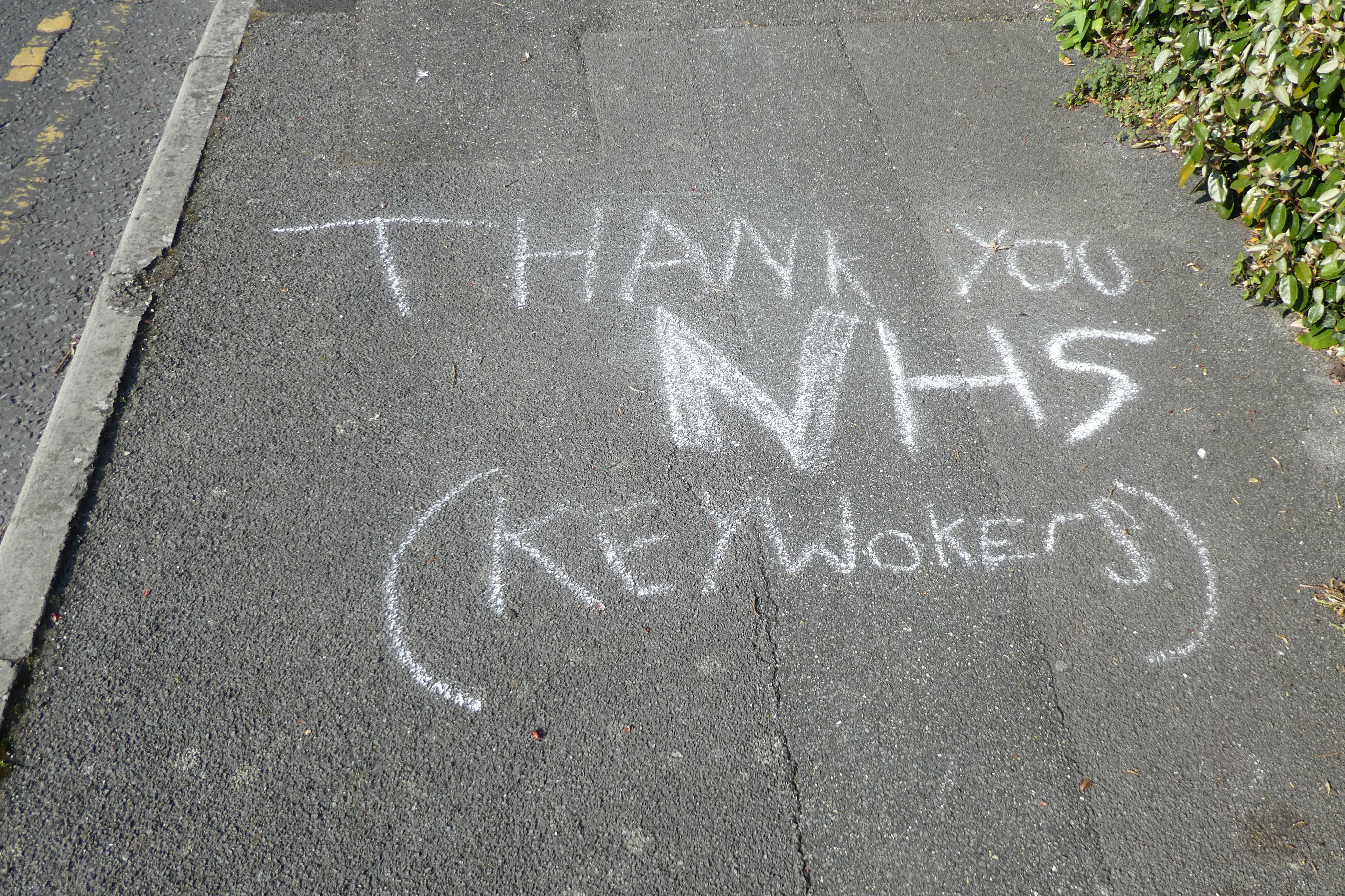 So what if there's a spelling mistake? The message is clear. Thank you, National Health Service Keyworkers.